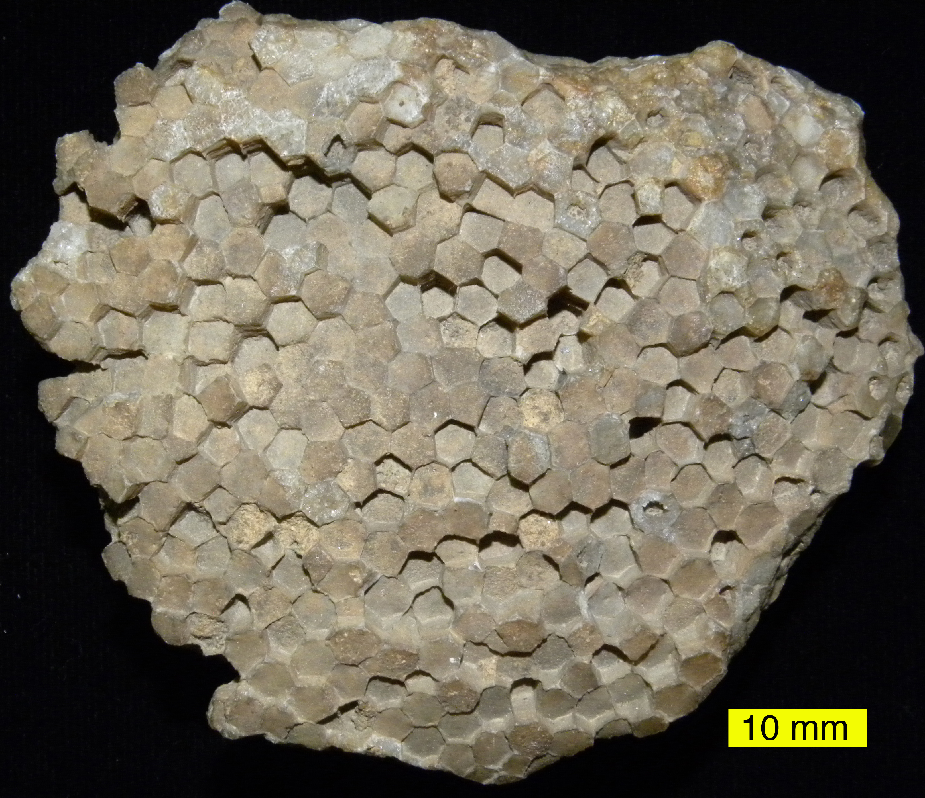 Favosites sp. from the Upper Ordovician of southern Indiana, USA.